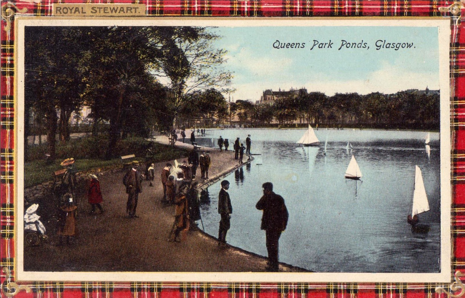 Glasgow. Queen's Park Ponds. Postcard, circa 1910. Publisher: Philco Publishing Co. London.